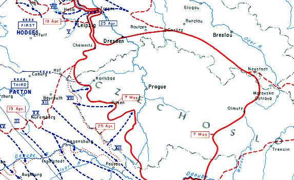 Final Operations - 19 April - 7 Mai 1945Background information: In 1938 the predecessors of what is today The Department of History at the United States Military Academy began developing a series of campaign atlases to aid in teaching cadets a course entitled, "History of the Military Art." Since then, the Department has produced over six atlases and more than one thousand maps, encompassing not only America’s wars but global conflicts as well. In keeping abreast with today's technology, the Department of History is providing these maps on the internet as part of the department's outreach program. The maps were created by the United States Military Academy’s Department of History and are the digital versions from the atlases printed by the United States Defense Printing Agency. We gratefully acknowledge the accomplishments of the department's former cartographer, Mr. Edward J. Krasnoborski, along with the works of our present cartographer, Mr. Frank Martini. Please be aware that these maps are large in file size and may require substantial download times.